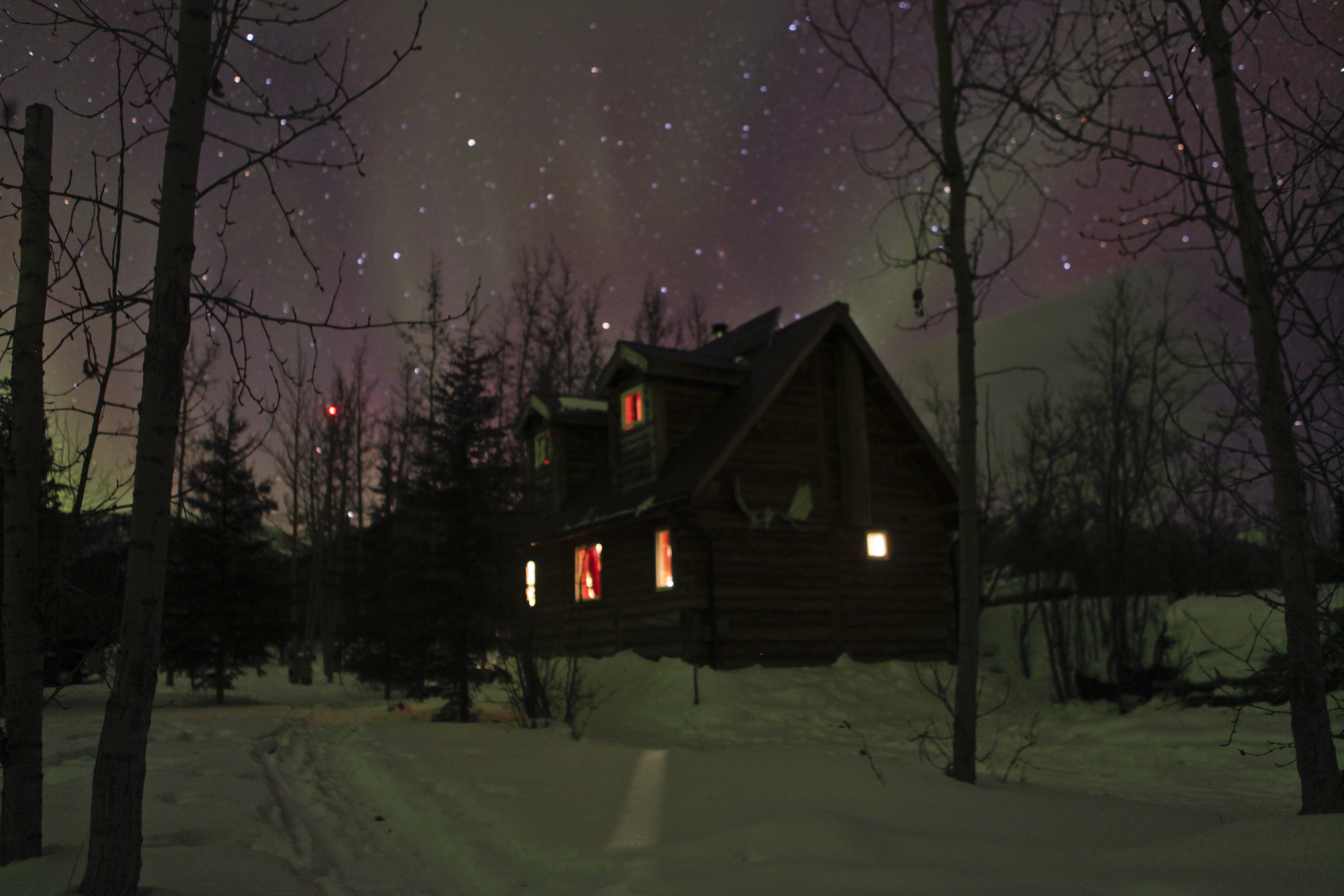 Red and green rays shining behind a house in sparse woods